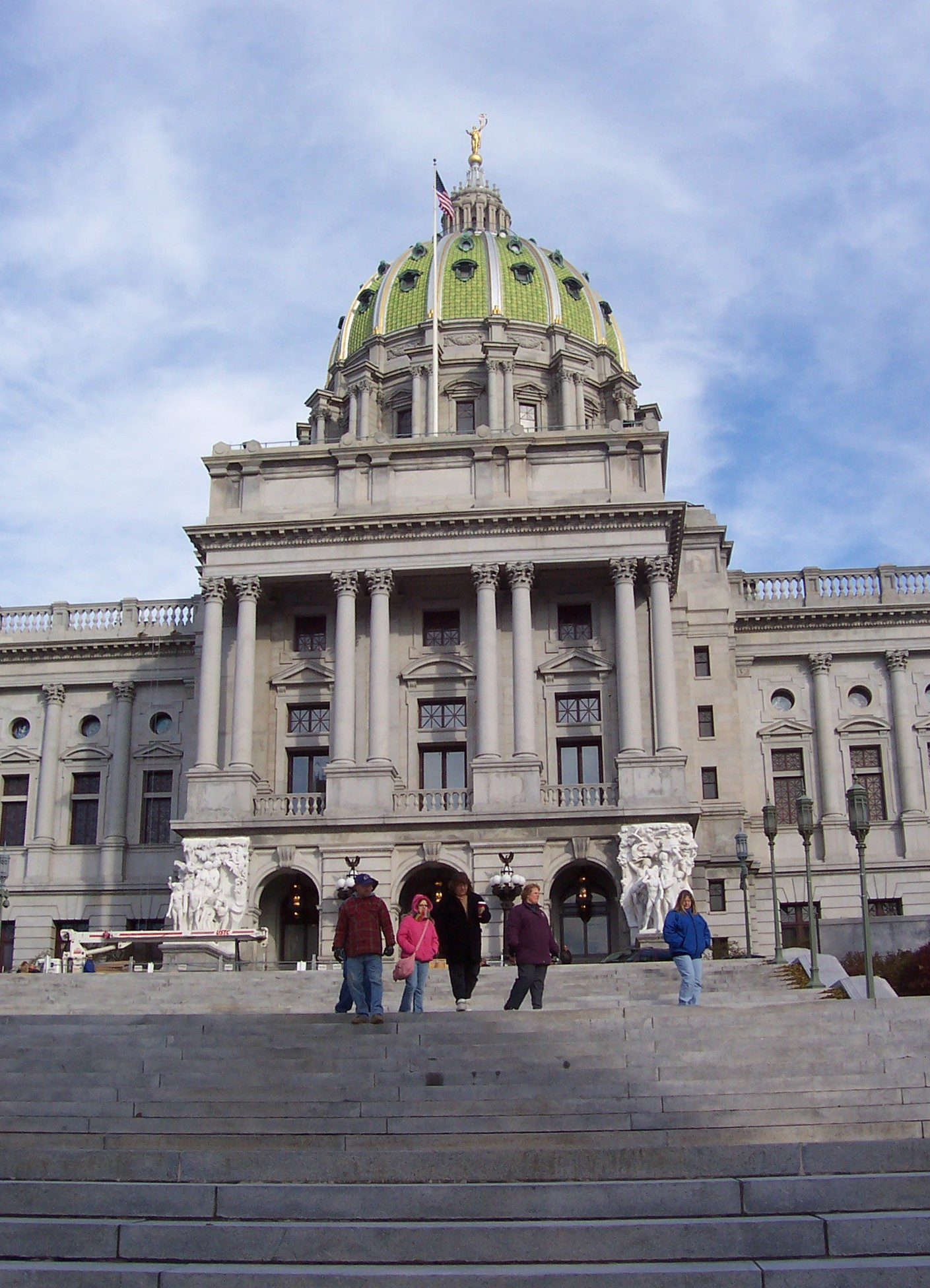 Pennsylvania State Capitol, Harrisburg, Pennsylvania, 11/26/2005,Self Photo - taken November 26, 2005 by User:Michael180 ( with a Kodak EasyShare CX6330.